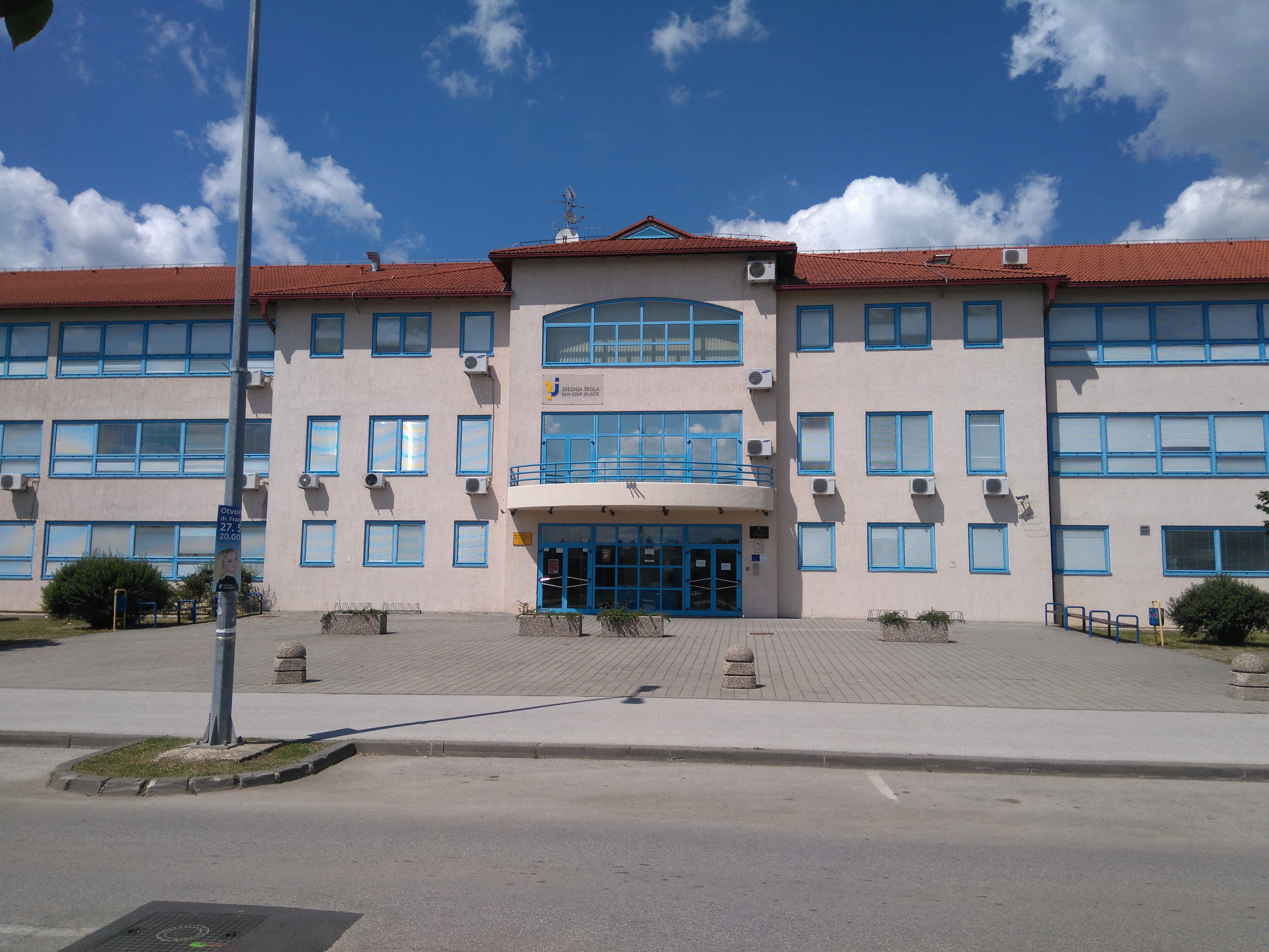 Main school entrance